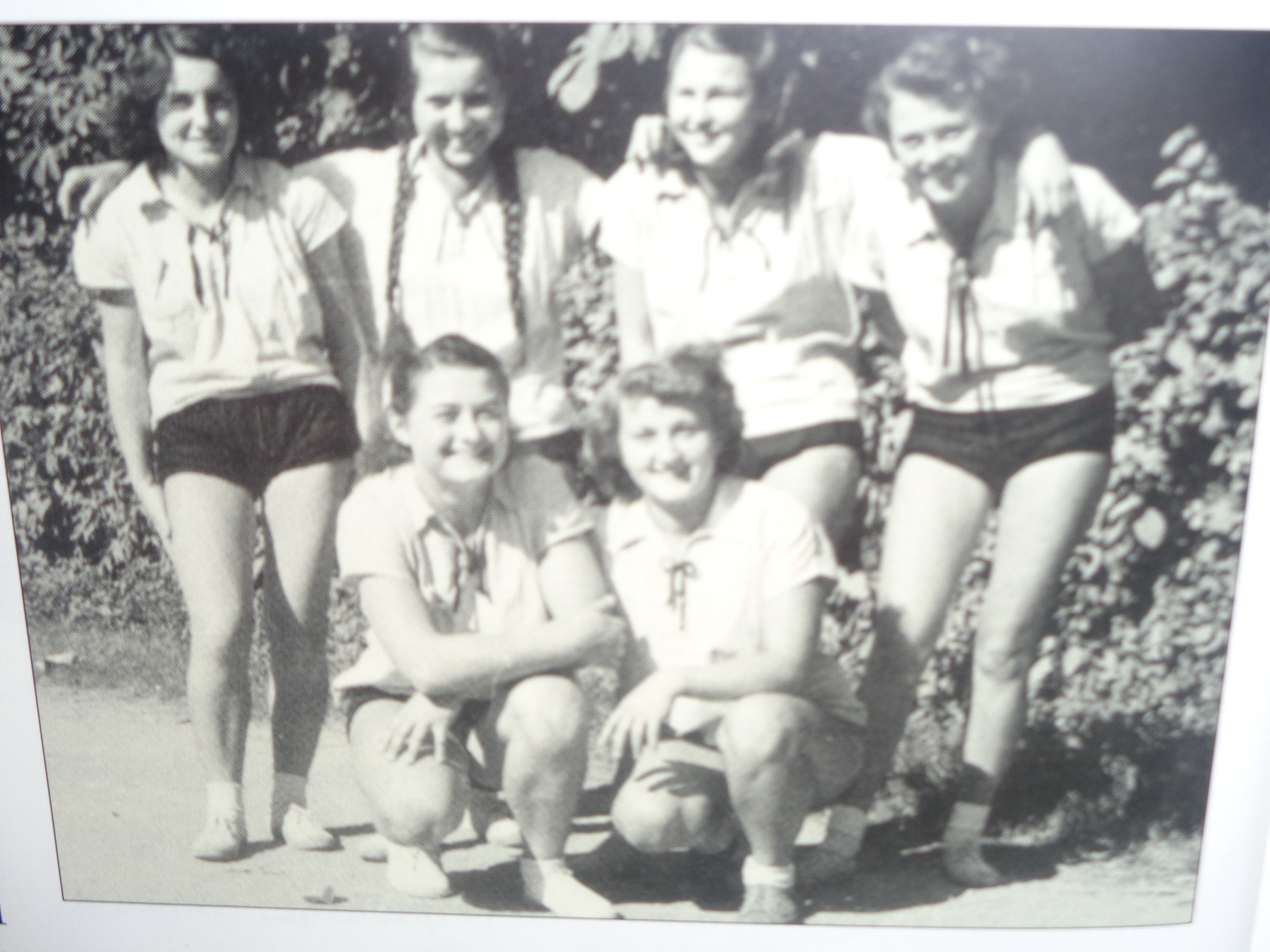 OK "Jedinstvo" women's volleyball team from 1948, Čakovec, Croatia